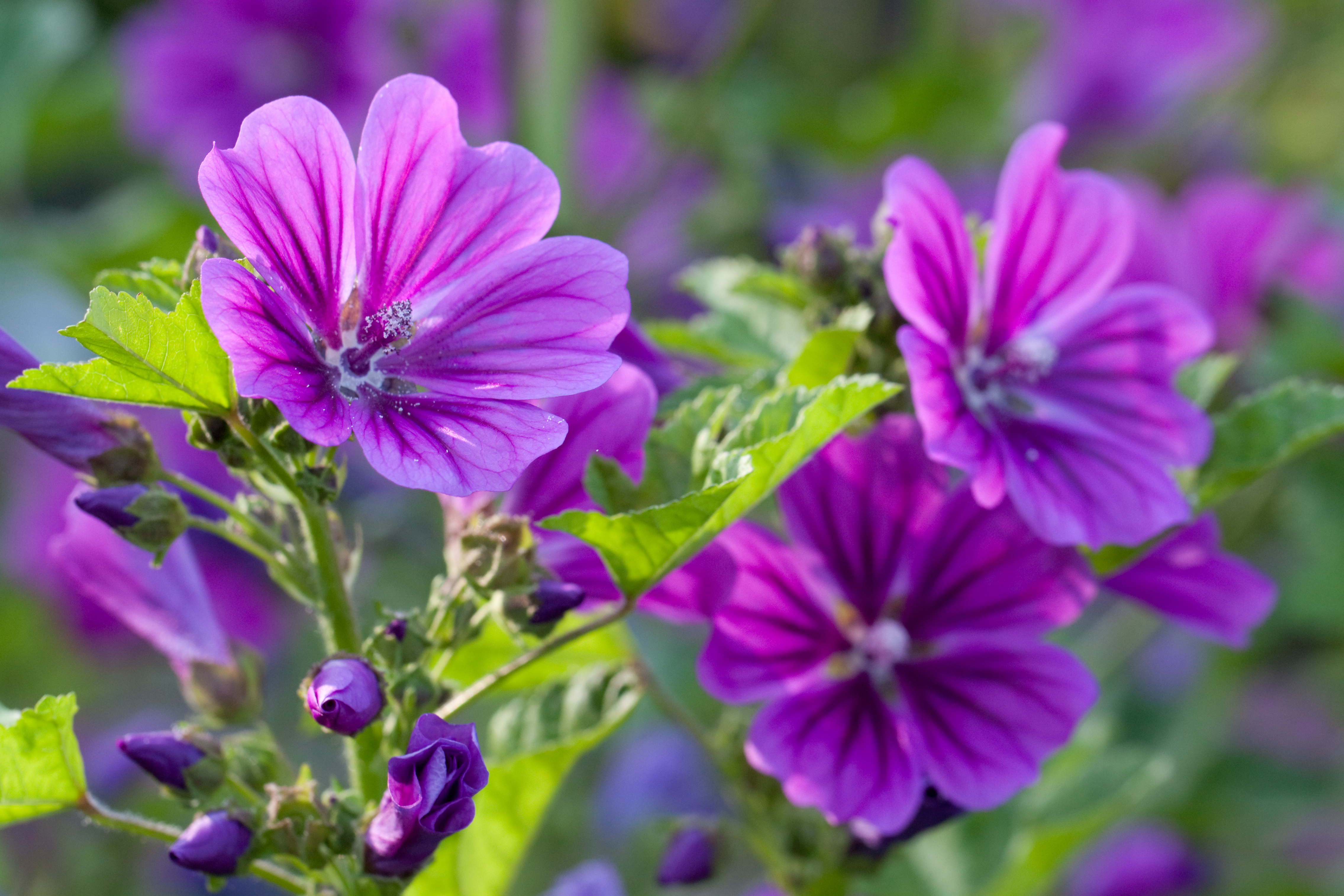 Common mallow. ゼニアオイ。